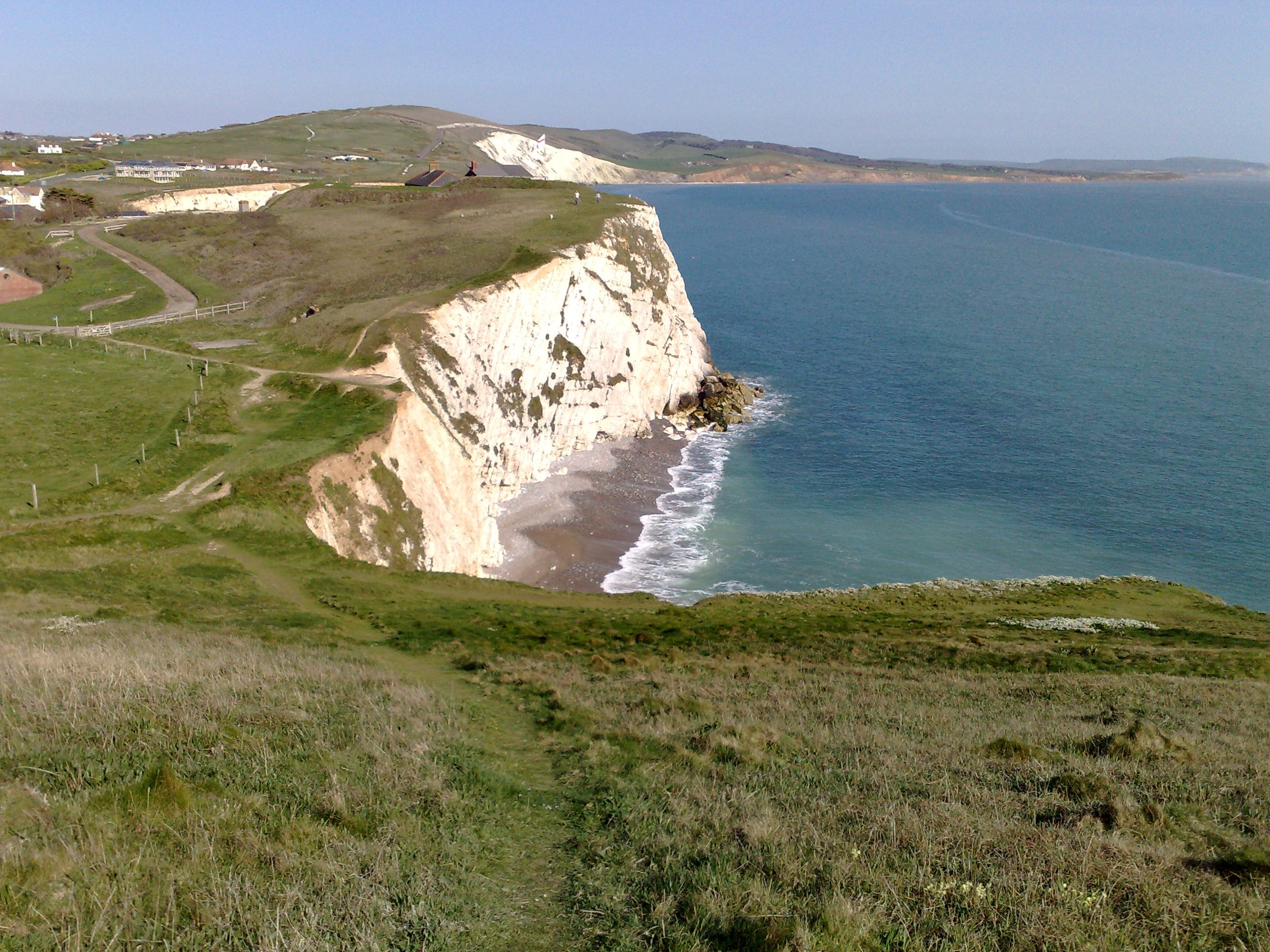 Watcombe Bay, IOW looking east. Compton Bay in the background.